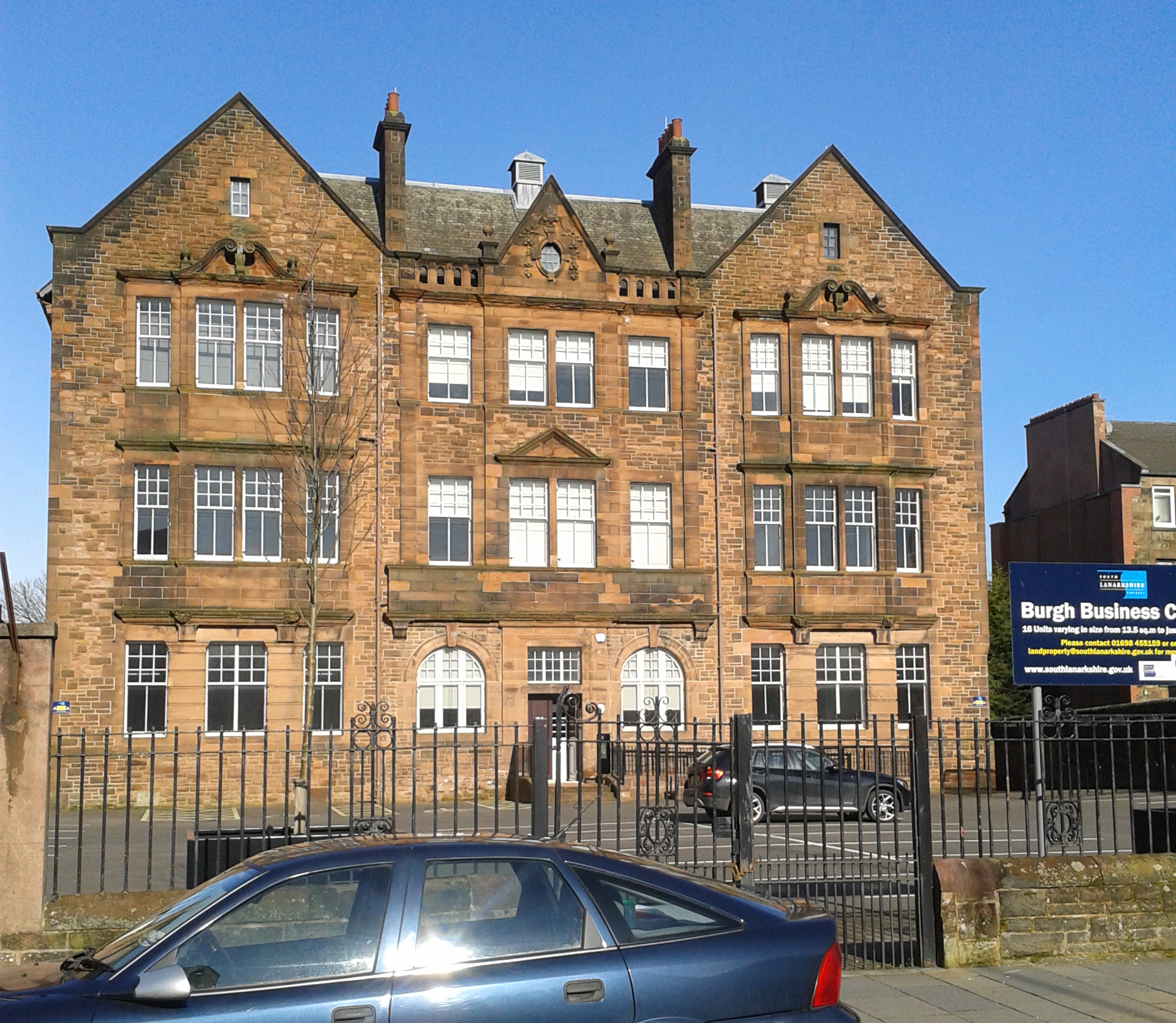 Burgh Business Centre, King Street, Rutherglen. Formerly Burgh Primary School.